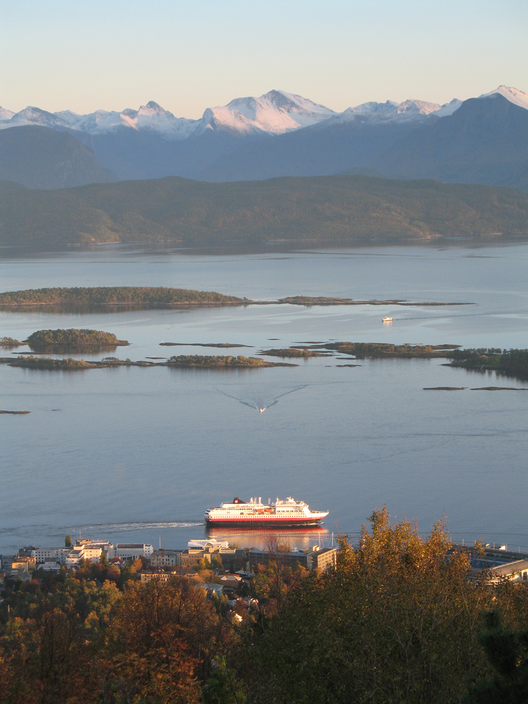 A view of the fjord and snowy mountains from the hill above the city of Molde.